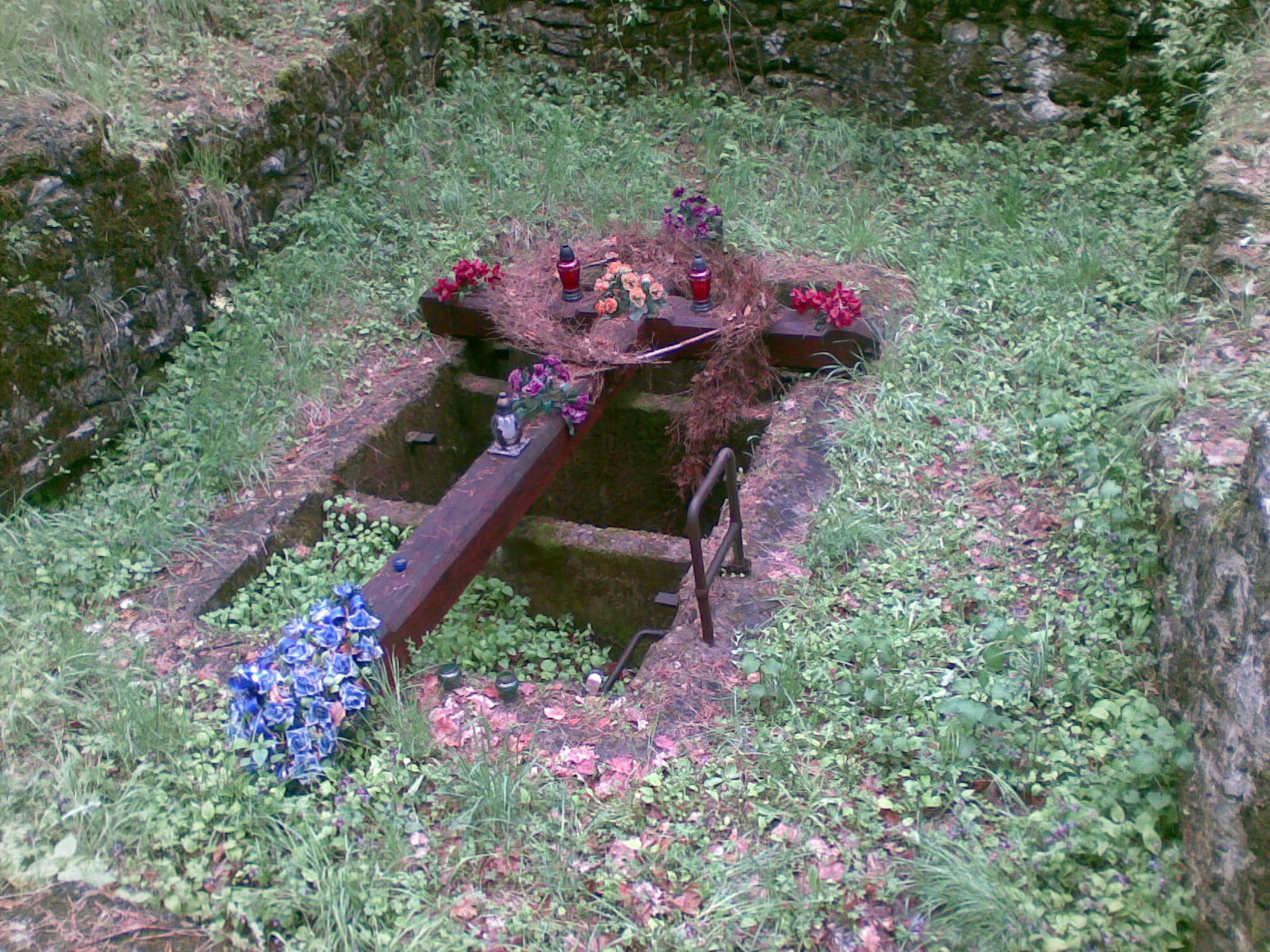 At the site of the tragedy